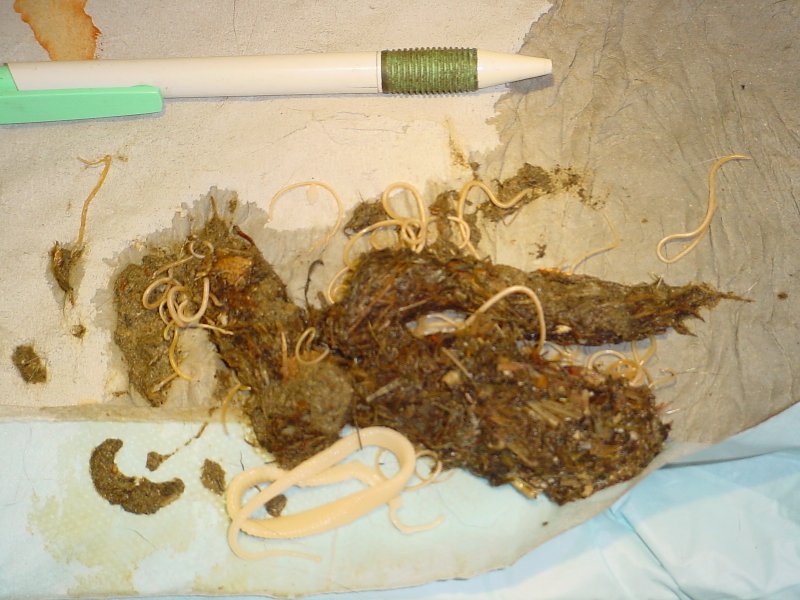 Serious roundworm infestation in a cat's vomit. At the bottom of the image is a Dipylidium caninum tapeworm.